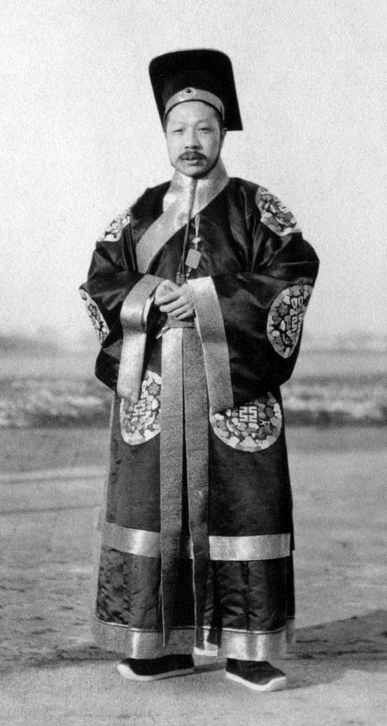 An official at Yuan Shikai's visit to the Temple of Heaven, Beijing, in 1913